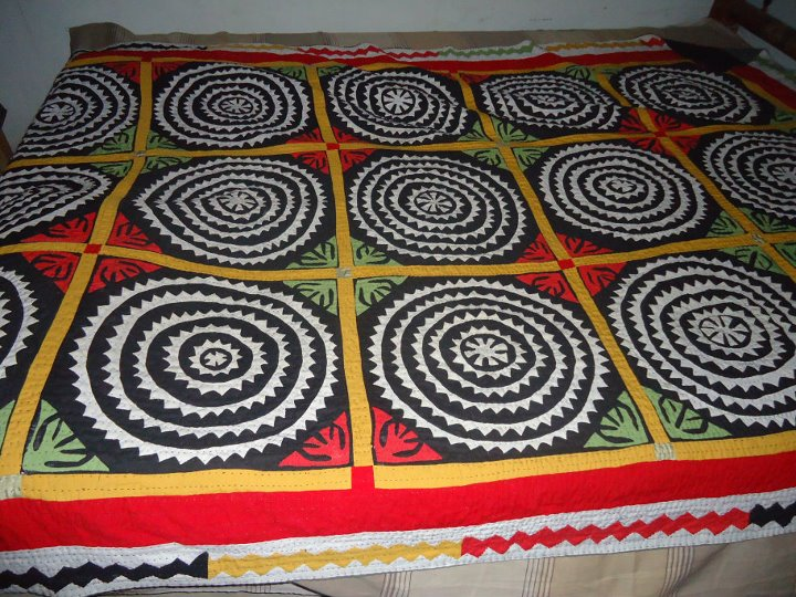 سنڌي: This is my own work.This is appliqued quilt,we call this applique work TUKK'A in Sindhi language.I made it in the year 2003